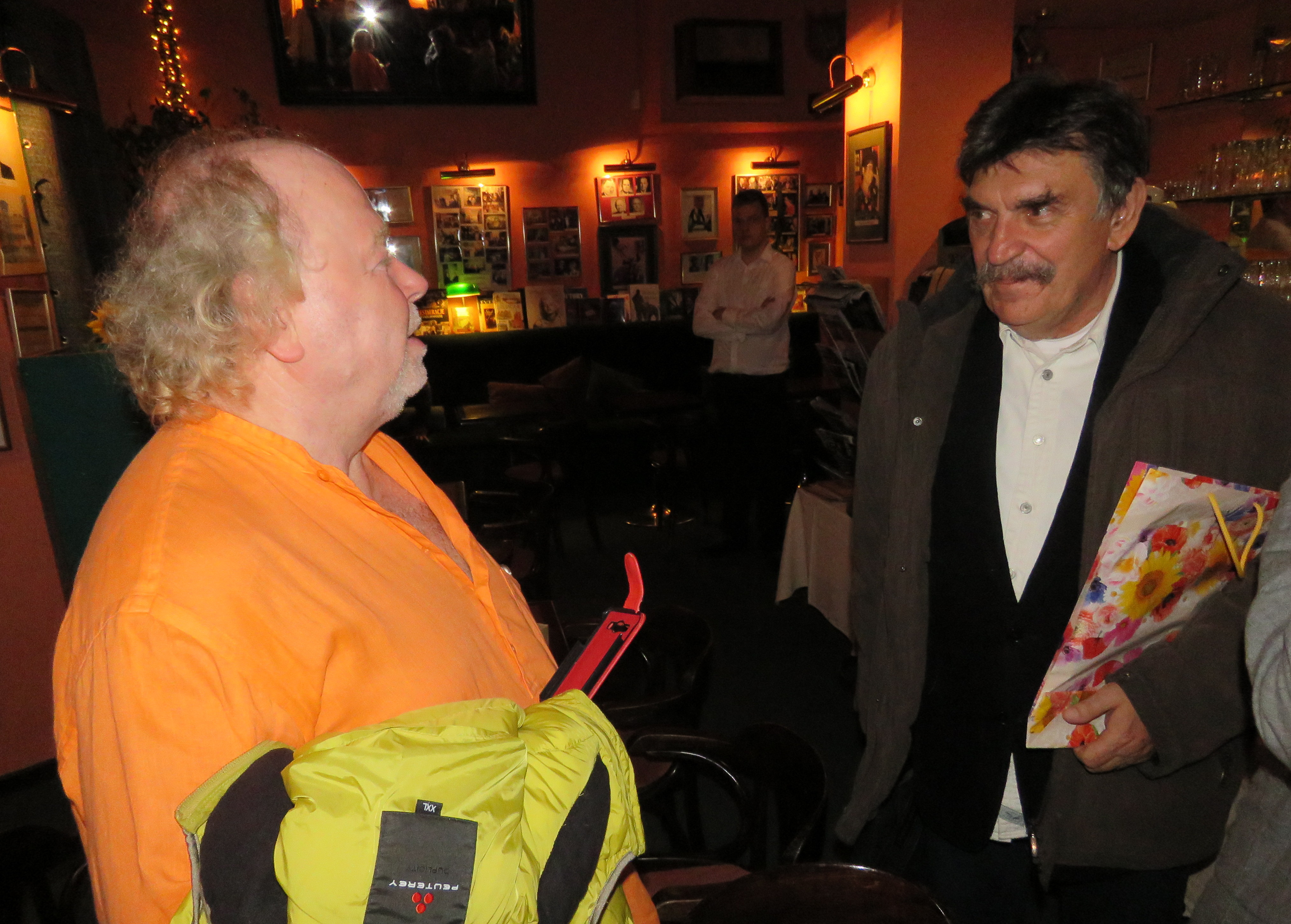 Stanisław Wenglorz (b. August 22, 1950) – Polish rock singer, vocalist of Budka Suflera and Skaldowie and Jan Budziaszek (b. November 21, 1945) – Polish musician, drummer of Skaldowie.